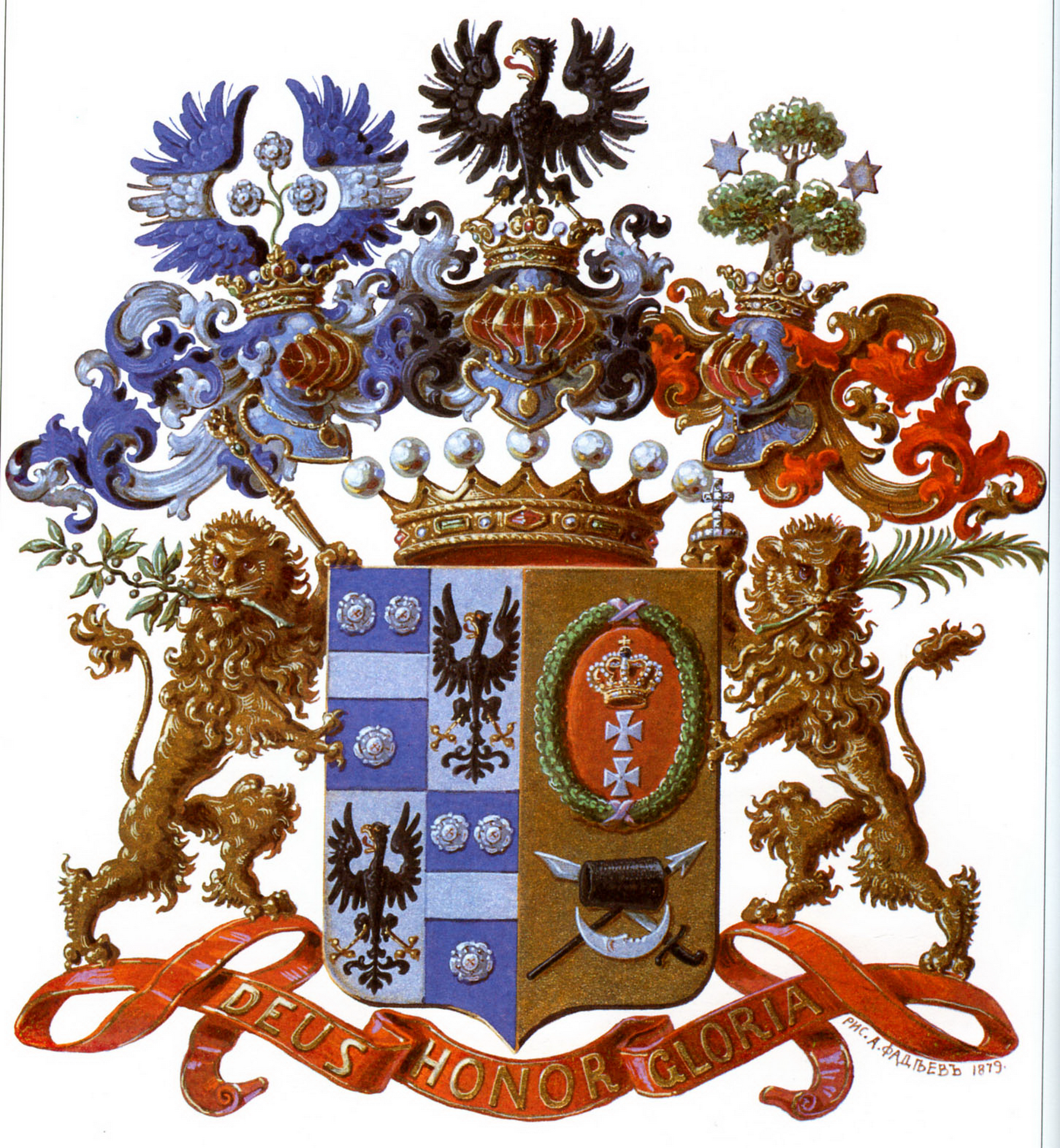 Coat of Arms of family Bode-Kolychyow